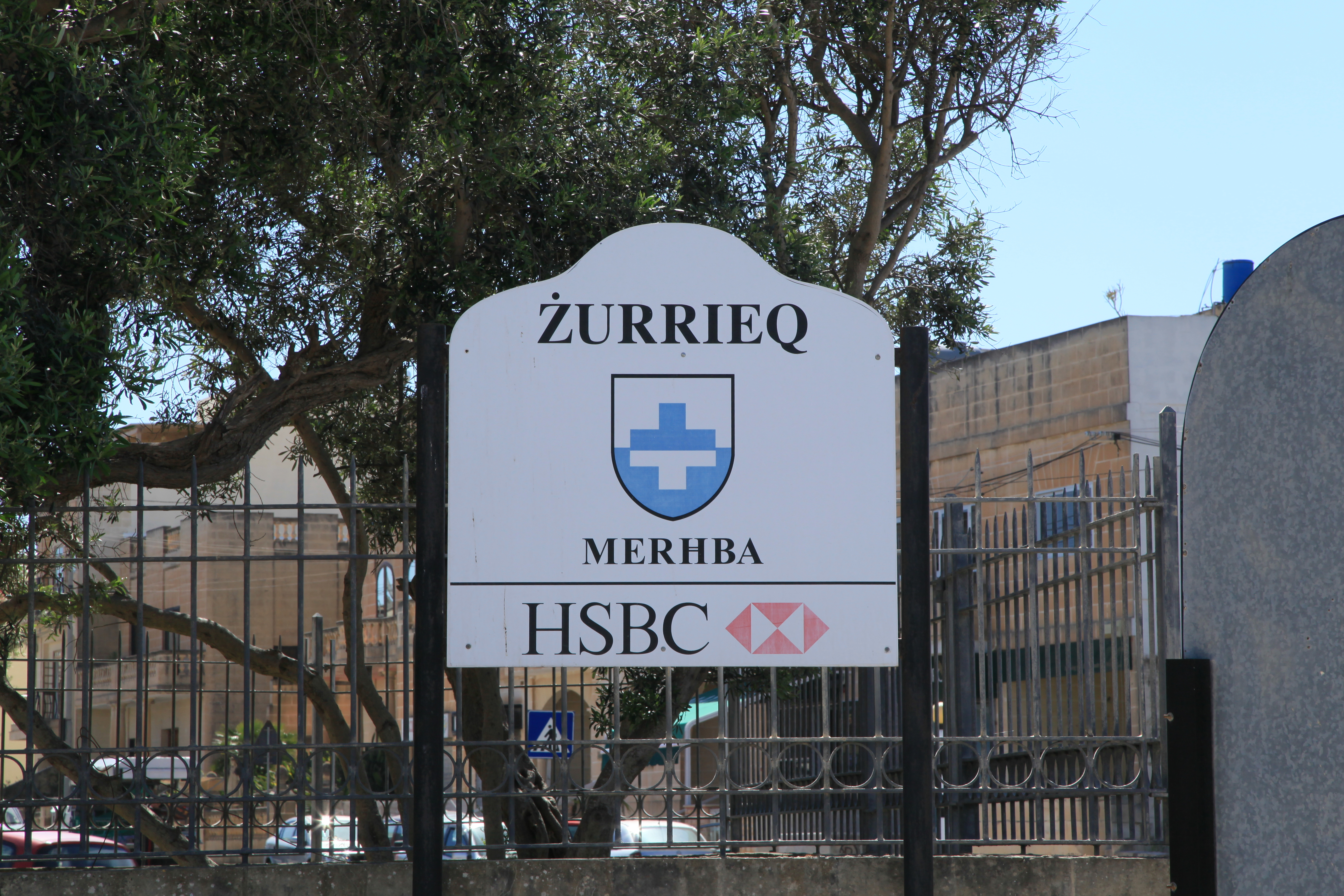 Triq Sant' Andrija in Żurrieq, Malta